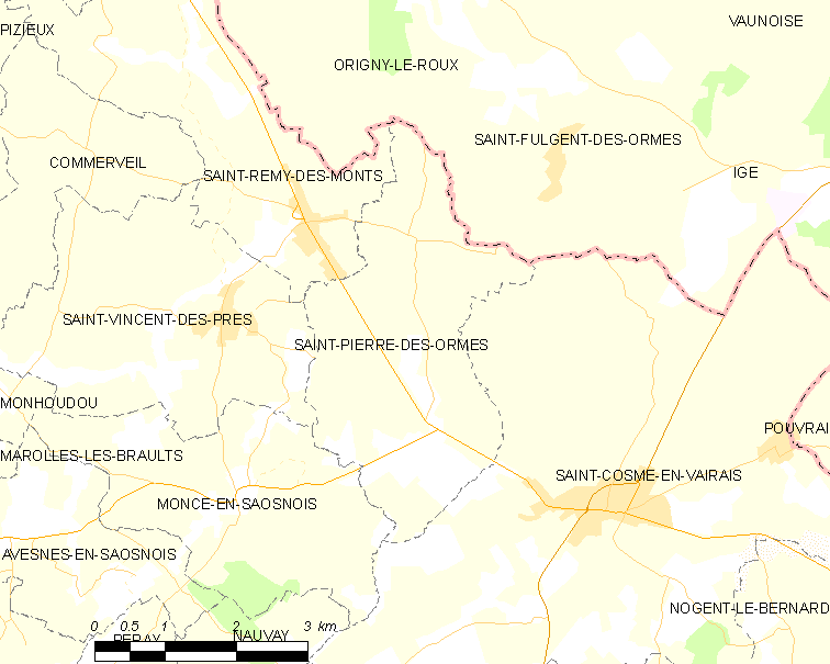 Map of French municipality